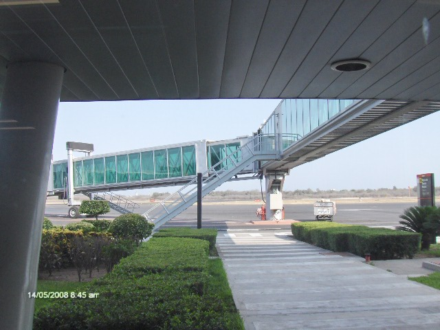 CULIACAN AIRPORT